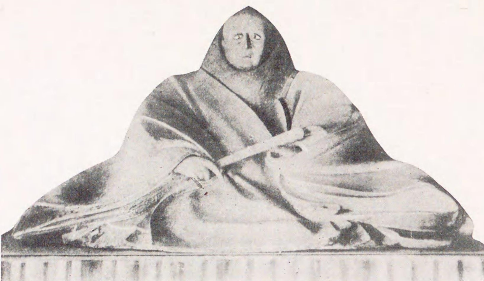 A wooden statue of Ashikaga Yoshimitsu at Kinkaku-ji. It was an Important Cultural Property of Japan but lost in 2nd July 1950 by arson.